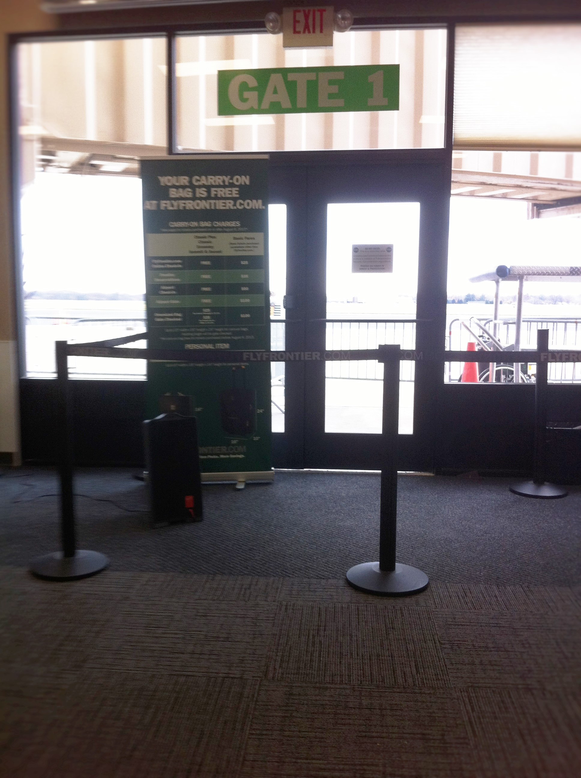 Gate 1 at the new renovated terminal at Trenton Mercer Airport